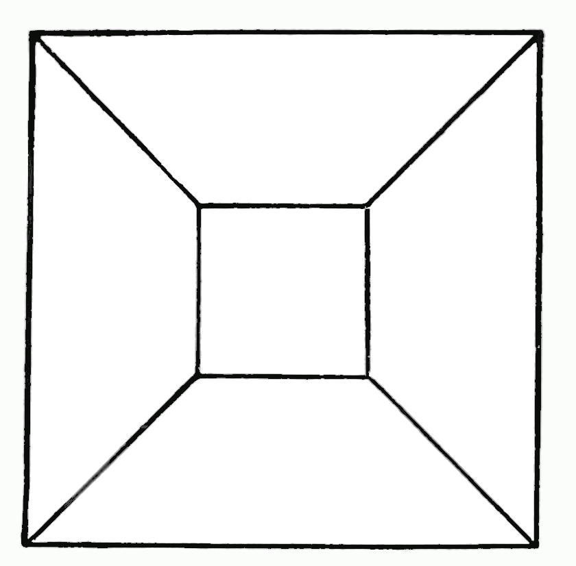 Simple shape creating optical illusion